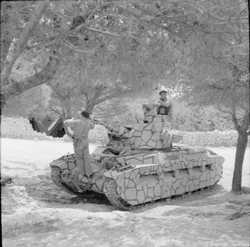 The British Army on Malta 1942 A Matilda tank during an exercise in the Maltese countryside, 24 May 1942. Note the distinctive camouflage, and its inspiration - a stone wall - behind.